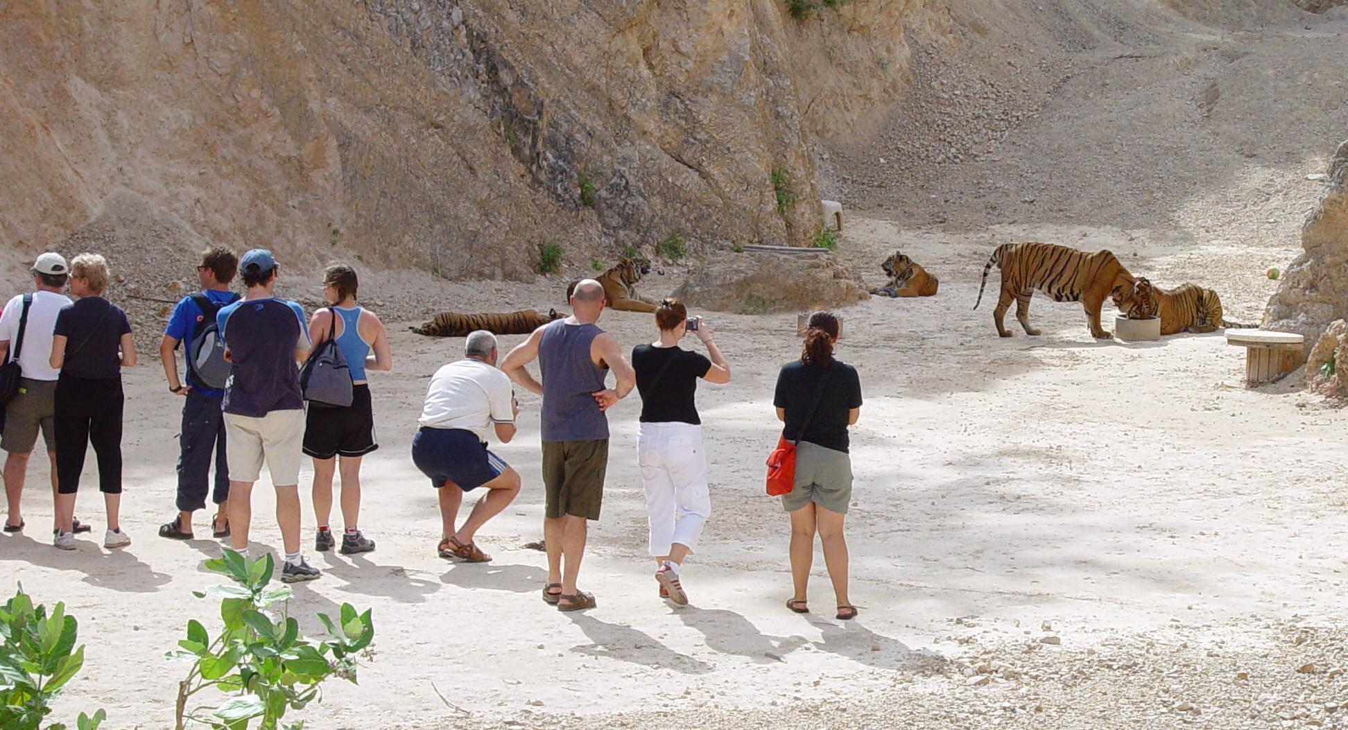 Tourists in the Tiger Temple in Thailand. Chained tigers in the background.